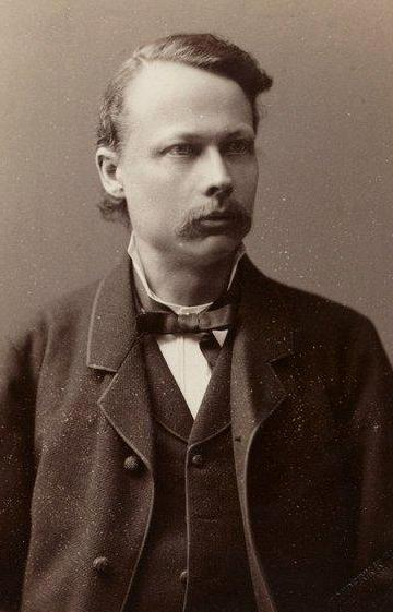 Oskar Emil Schiøtz's portrait